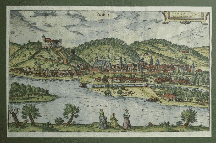 View of Bratislava (Posonium, Pressburg, Pozsony, Bratysława), capital of Slovakia.